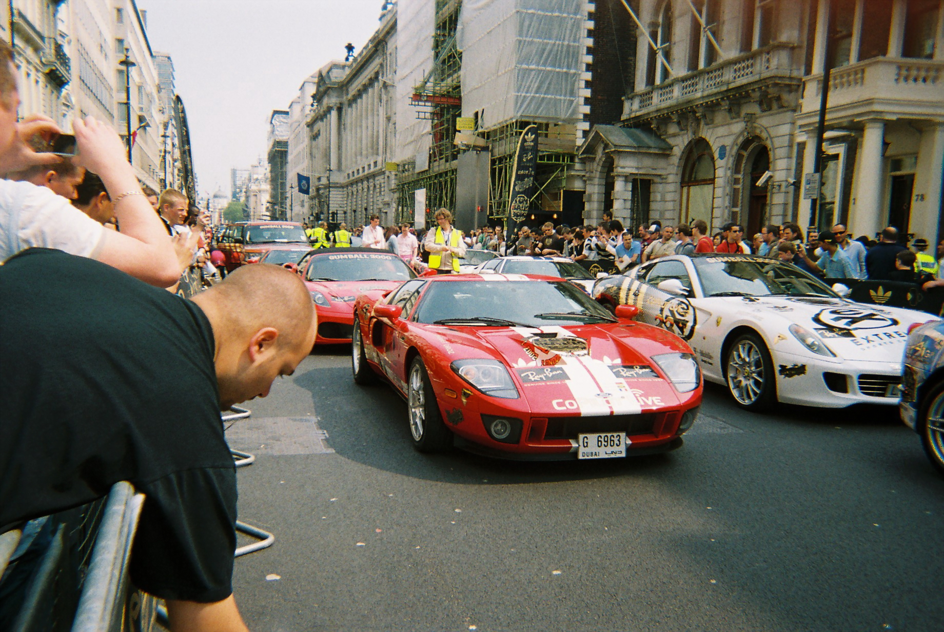 Ford GT - Gumball 3000 2007